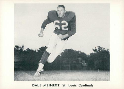 A promotional image of St. Louis Cardinals American football player Dale Meinert, misspelled on the card as Dale Meineot.